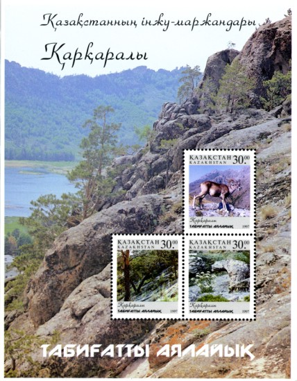 Stamp of Kazakhstan